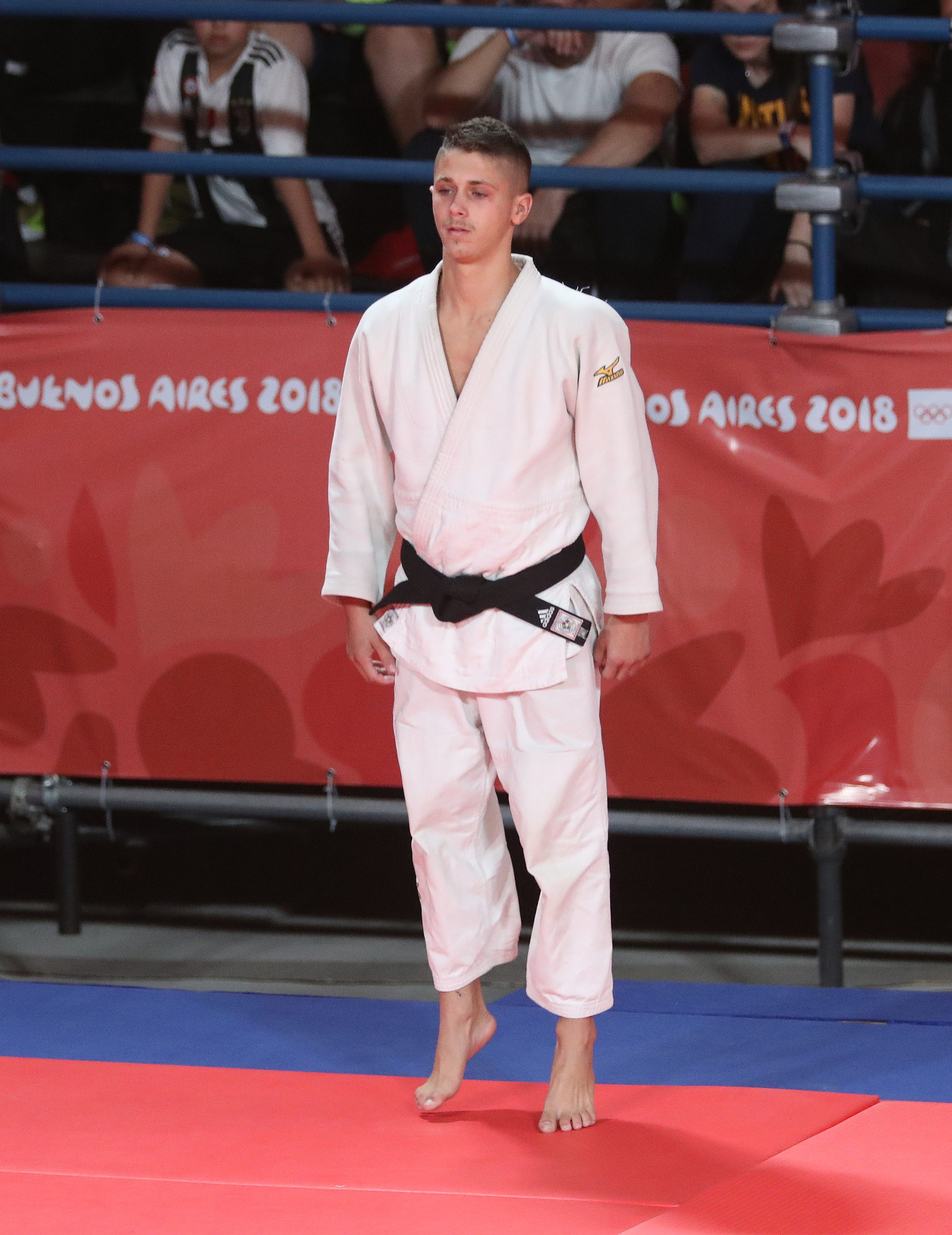 Judo bronze medal match of the boys 55 kg at the 2018 Summer Youth Olympics in Buenos Aires on 7 October 2018: Israel vs. Austria.